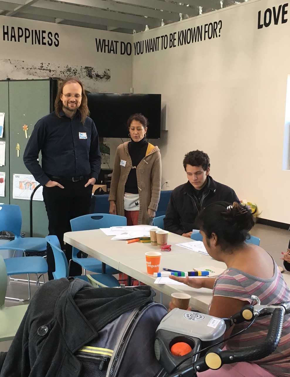 Jay Freeman in 2016 at one of the Isla Vista Community Center outreach events held in the St. George Family Youth Center, Isla Vista, California